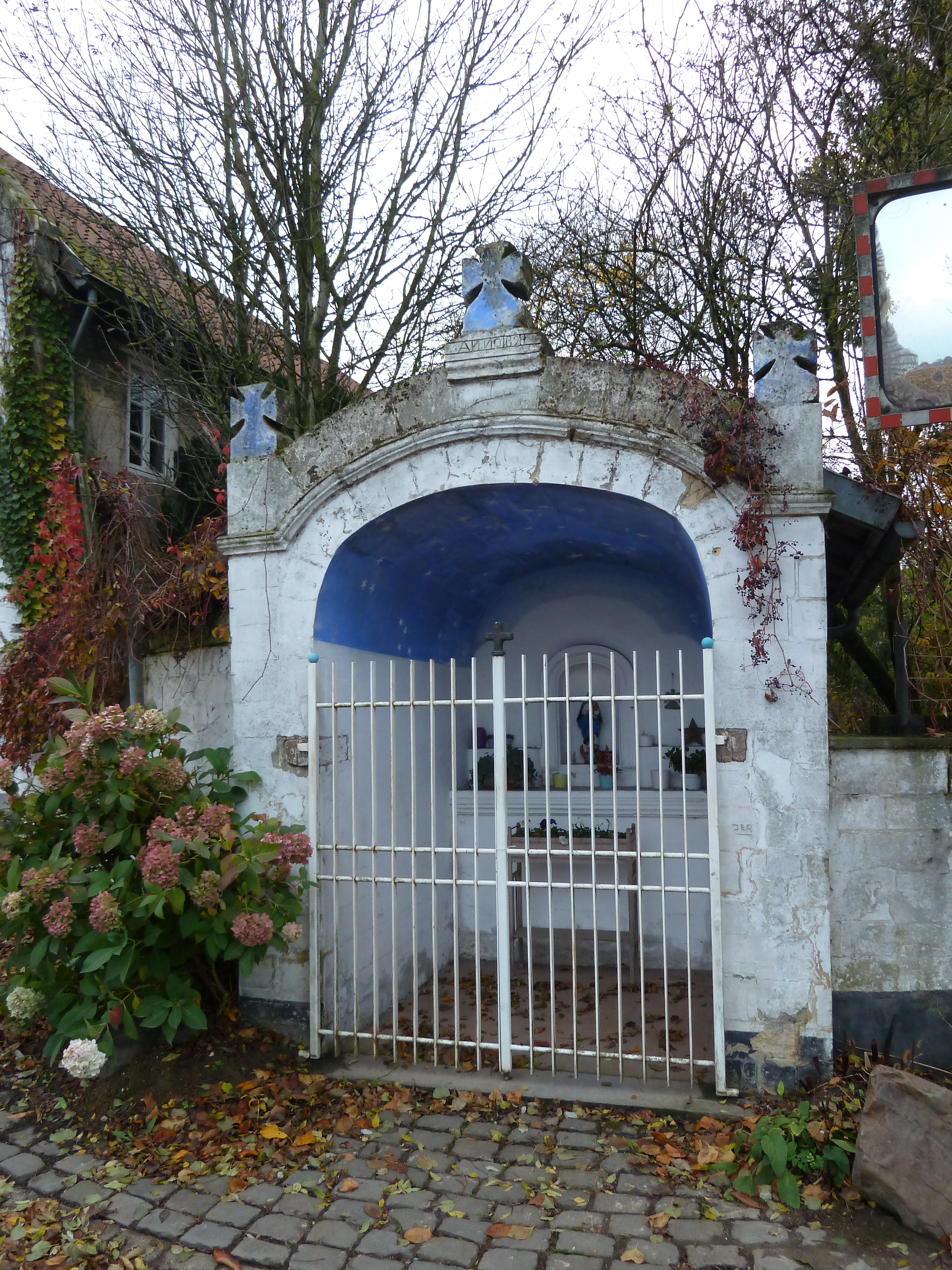 Chapel Walem, Schin op Geul, Limburg, the Netherlands